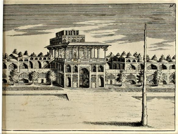 Ālī Qāpū (Aali Qapu) Palace- Esfahan Published in Voyage, ou relation de l'etat present du royaume de Perse in 1695